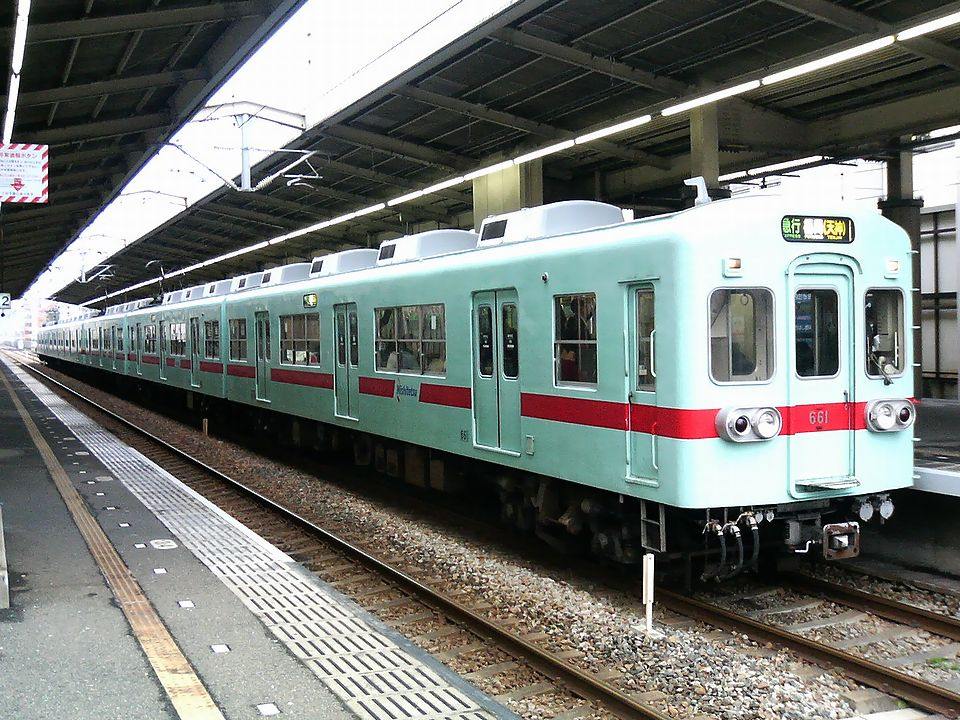 Nishi Nippon Railroad 600 series EMU (661-611-610-672-622-621) at Nishitetsu Tenjin Omuta Line Ohashi Station, in Minami-ku, Fukuoka, Japan